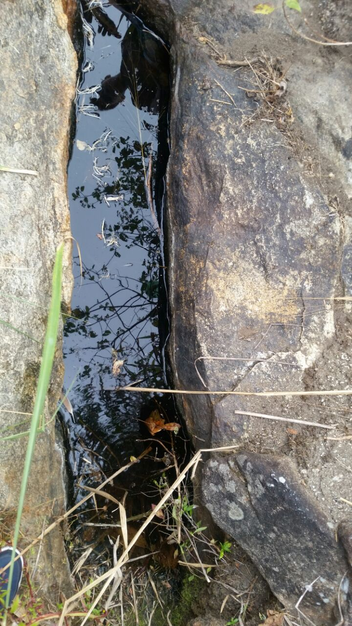 Olho d'água